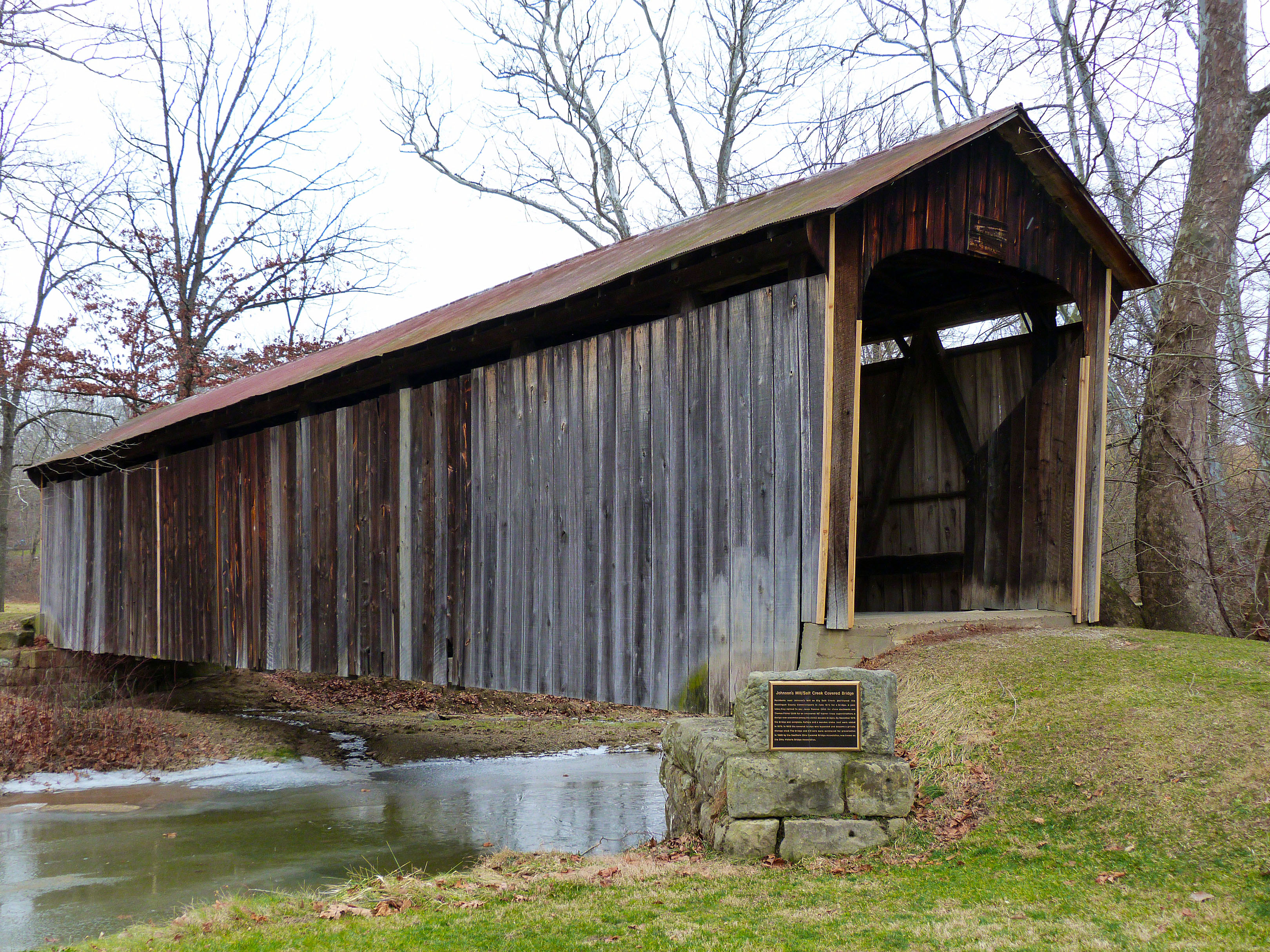 Johnson's Mill and Salt Creek Covered Bridge in Muskingum County, Ohio